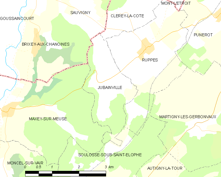 Map of French municipality Jubainville